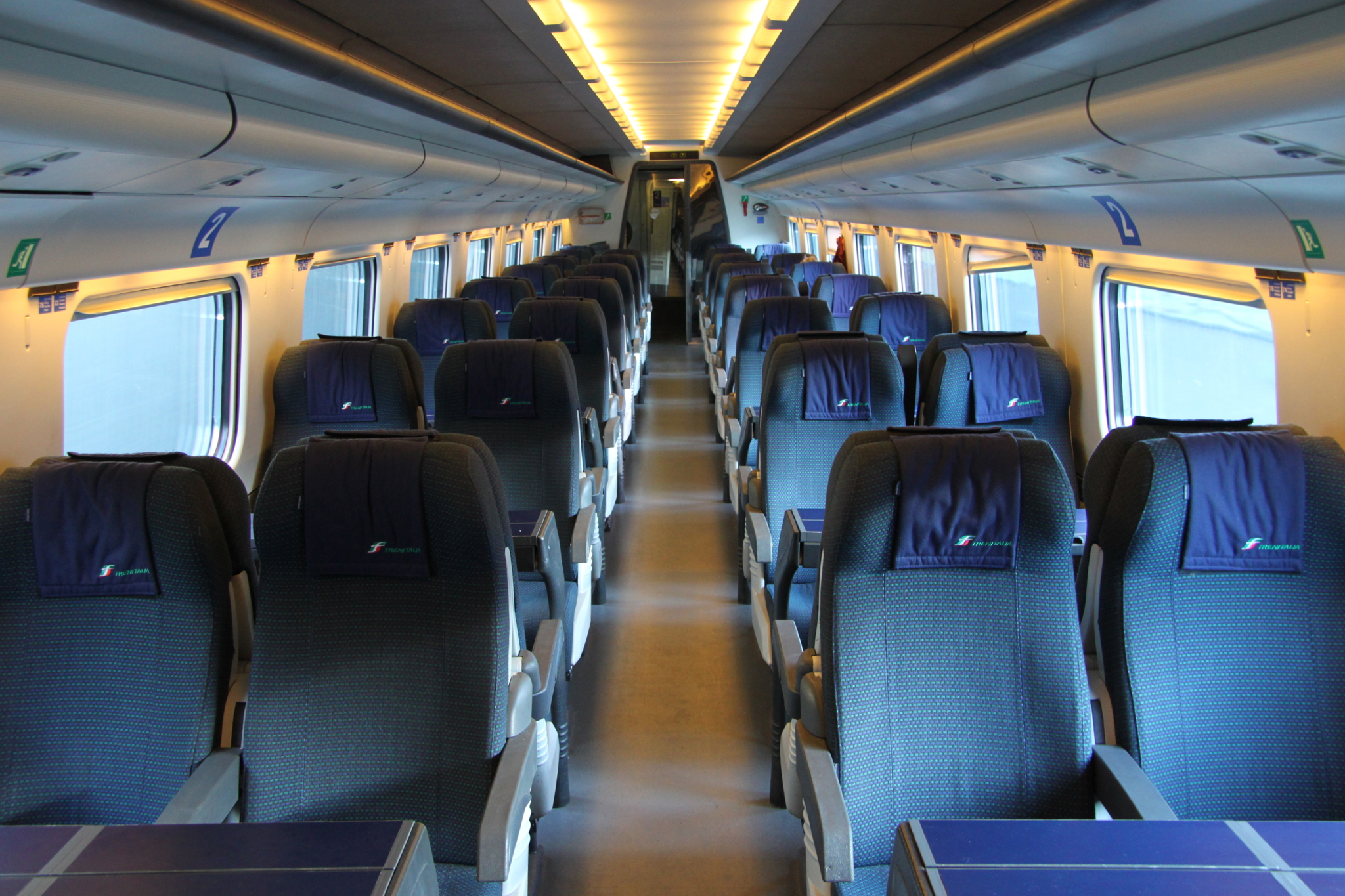 Interior of FS ETR 470-053 BAC; the train was operating EuroCity 30021 from Zürich HB to Milano C.le.